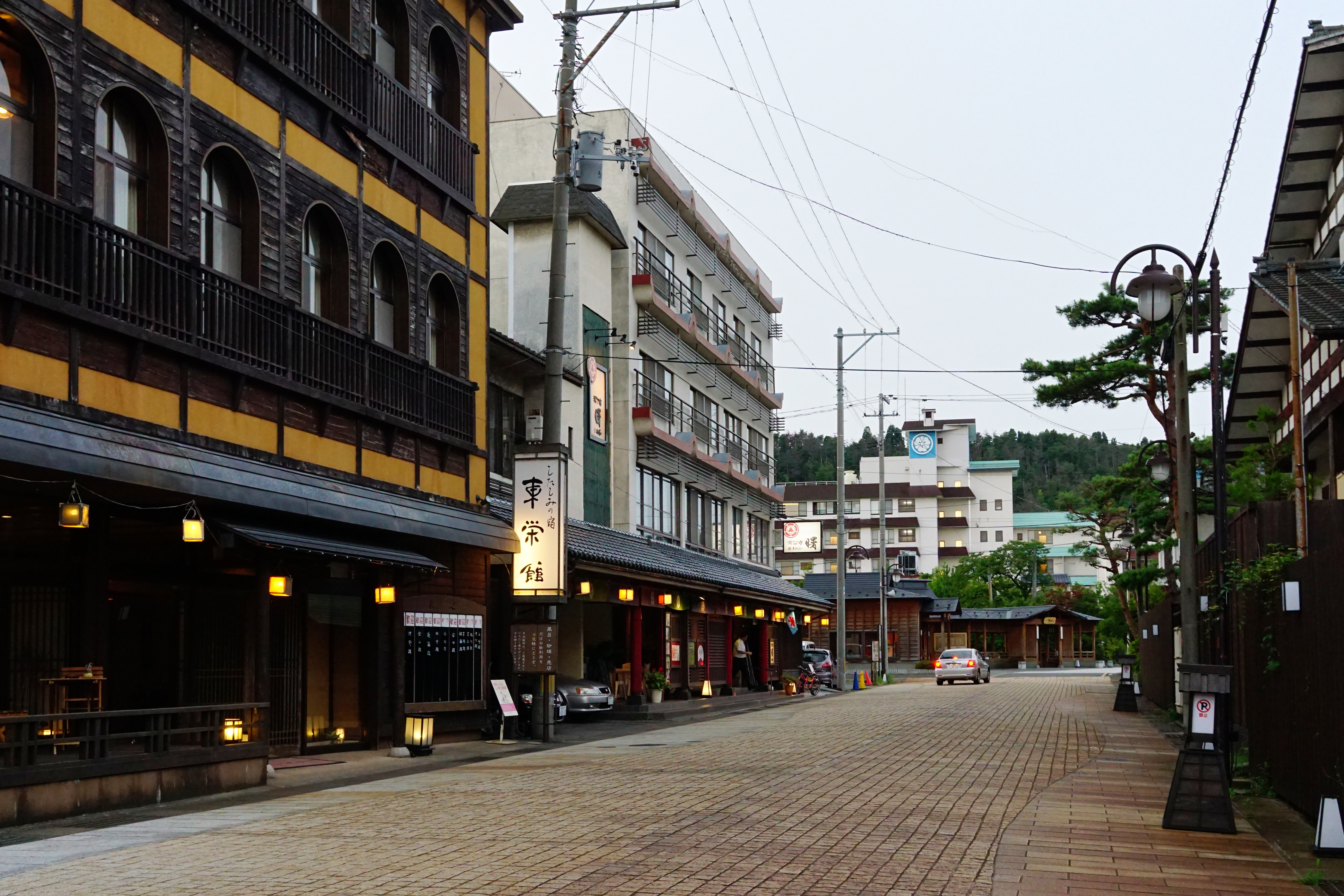 At Tsukioka_Onsen in Shibata, Niigata prefecture, Japan.